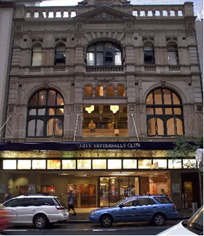 Front View of City Tattersalls Club today